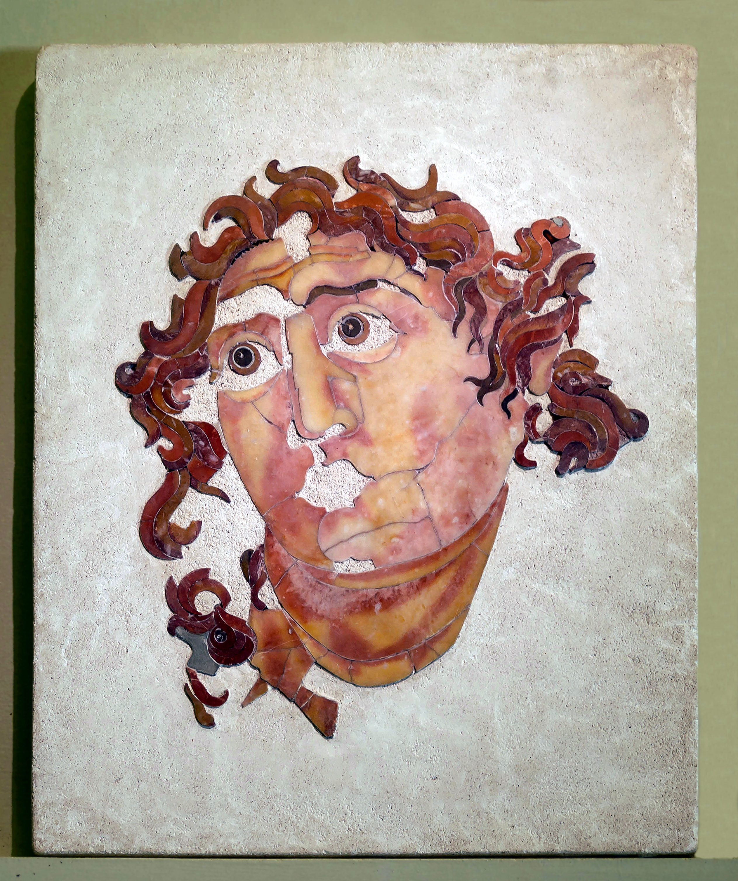 Head of Helios in Opus sectile, from the Mithraeum of Santa Prisca on the Aventine. Polychrome marble inlays. First Thirty years of the Third Century of Current Era. Rome, Roman National museum, Palazzo Massimo alle Terme. On display in a temporary exhibition (august 2013) in the Colosseum. Rome, Italy.